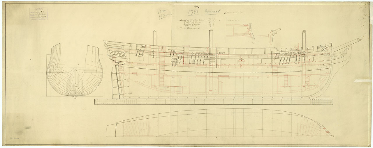 SPITFIRE 1783 lines & profile